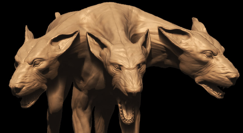 Cerberus, the three-headed dog of Hades, created using the Sculpt tool in Blender 2.43, by Giuseppe Canino (“RenderDemon”).